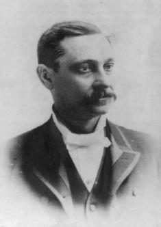 Timothy J. Campbell, Congressman from New York